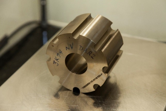 A depleted uranium core piece for the KRUSTY experiment, cast from uranium-molybdenum (UMo) alloy at the Y-12 National Security Complex. The outer diameter is 110mm, and the inner bore is 39.88mm. Eight grooves provide a conduit for the heat pipe to conduct heat away from the core to the Stirling engines.